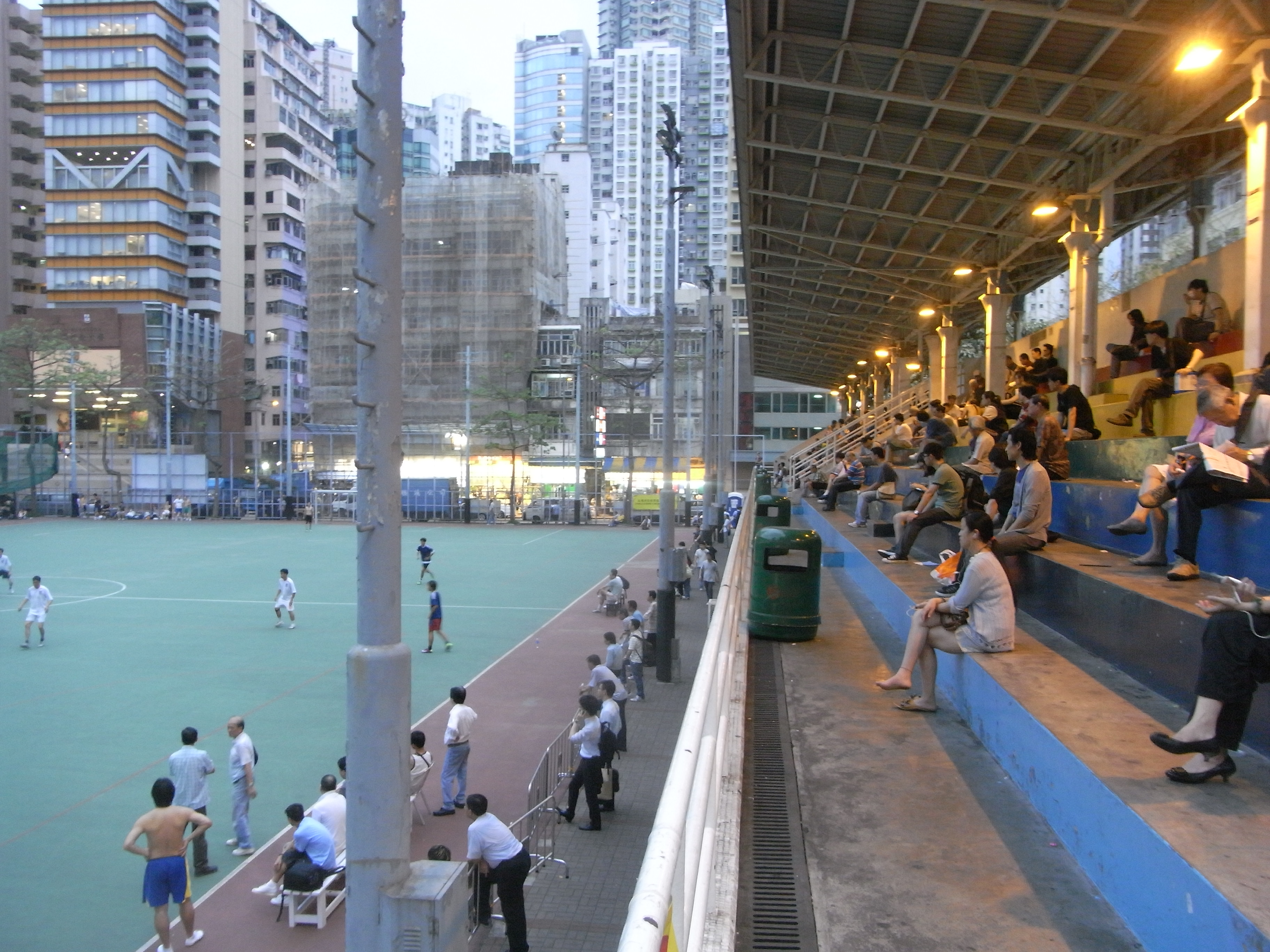 九龍旺角洗衣街59號麥花臣遊樂場